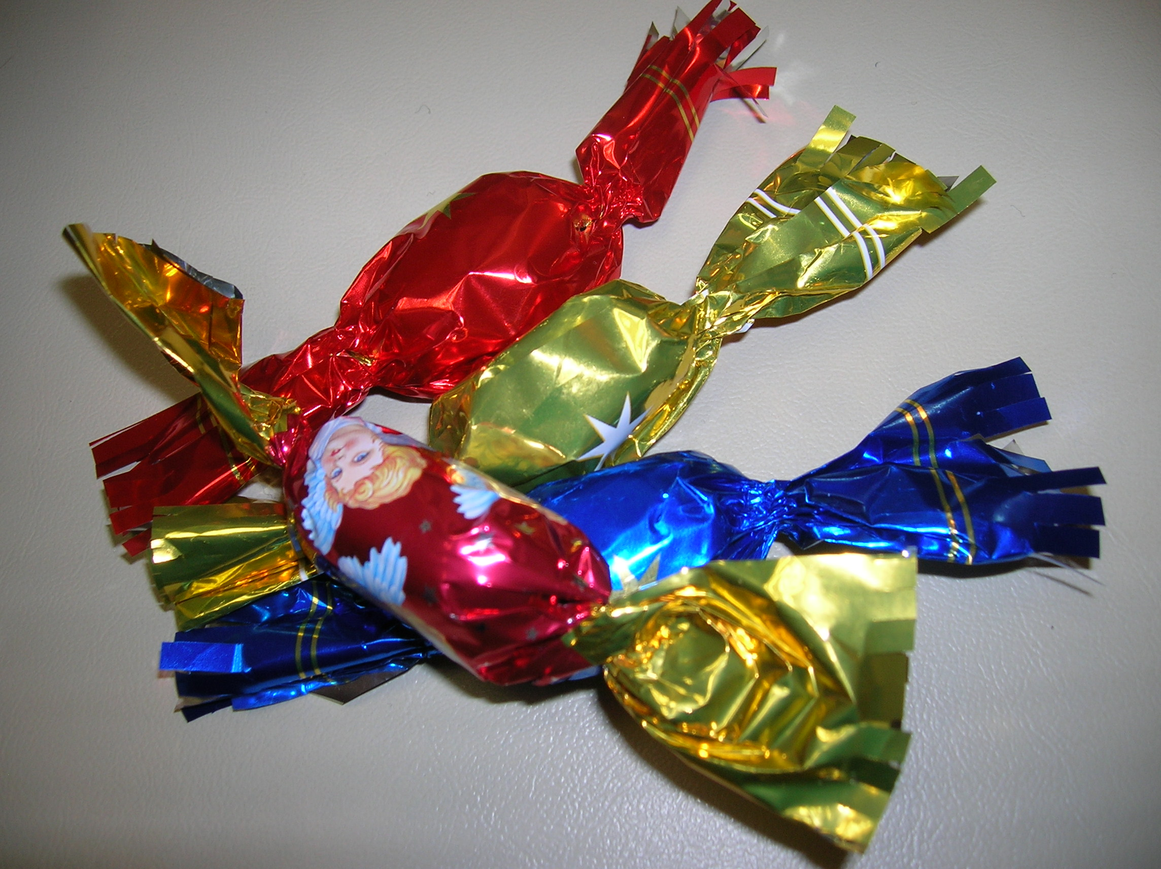 Parlour candy ("szaloncukor"), traditional Hungarian Christmas candy.